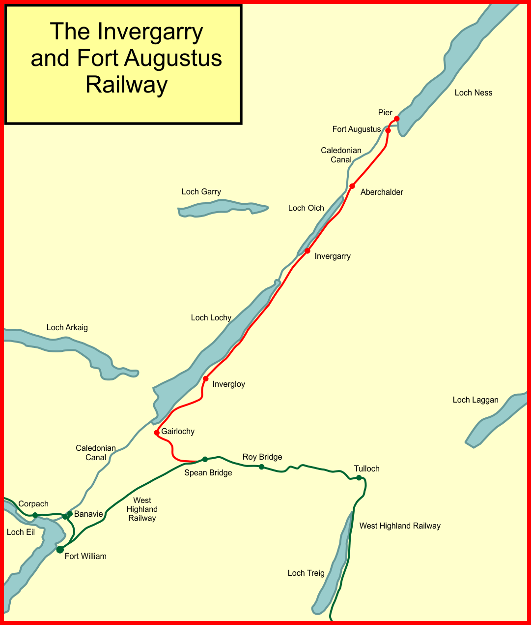 System map of the Invergarry and Fort Augustus Railway, Scotland